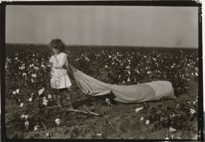 "Cotton Picker," silver bromide print, by American photographer Lewis W. Hind. Yale University Art Gallery, gift of Lisa Rosenblum, B.A. 1975. Courtesy of Yale University, New Haven, Conn.